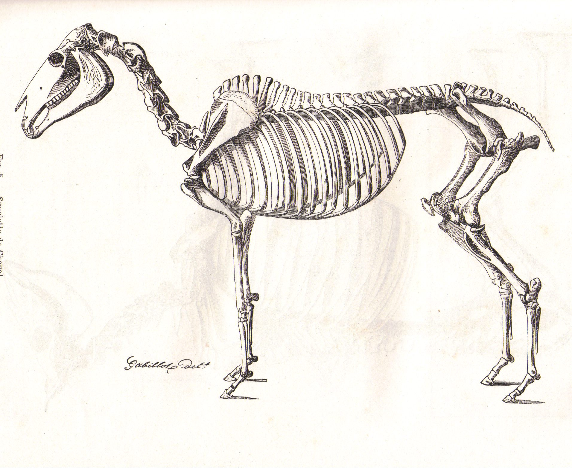 A horse (Equus caballus) skeleton.